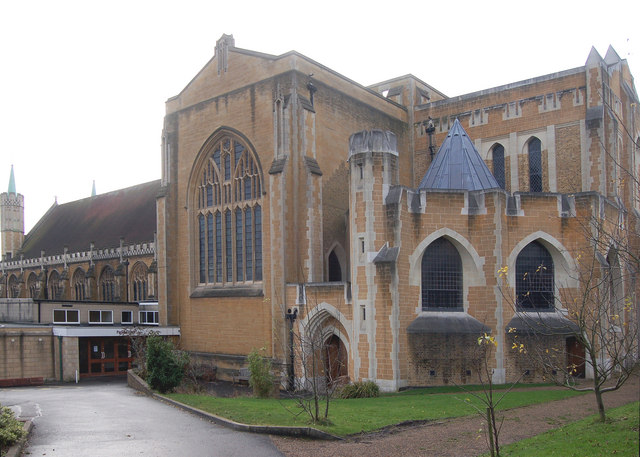 St Benedict's Church, Ealing, W5 (2) View of west face of the church, taken from rear entrance, just off Montpelier Avenue.